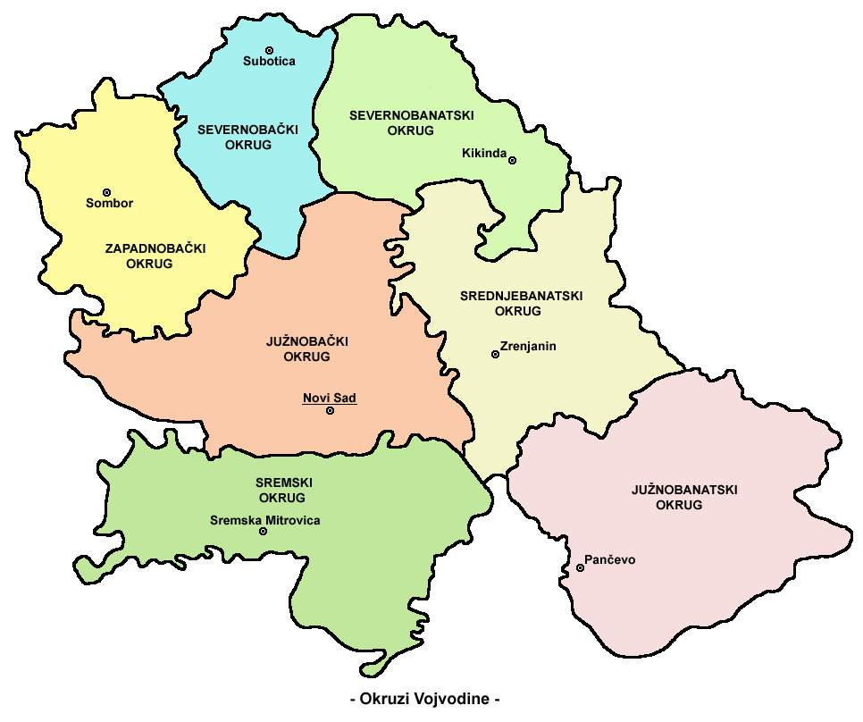 Map of the districts of Vojvodina (Serbian language Latin script version)